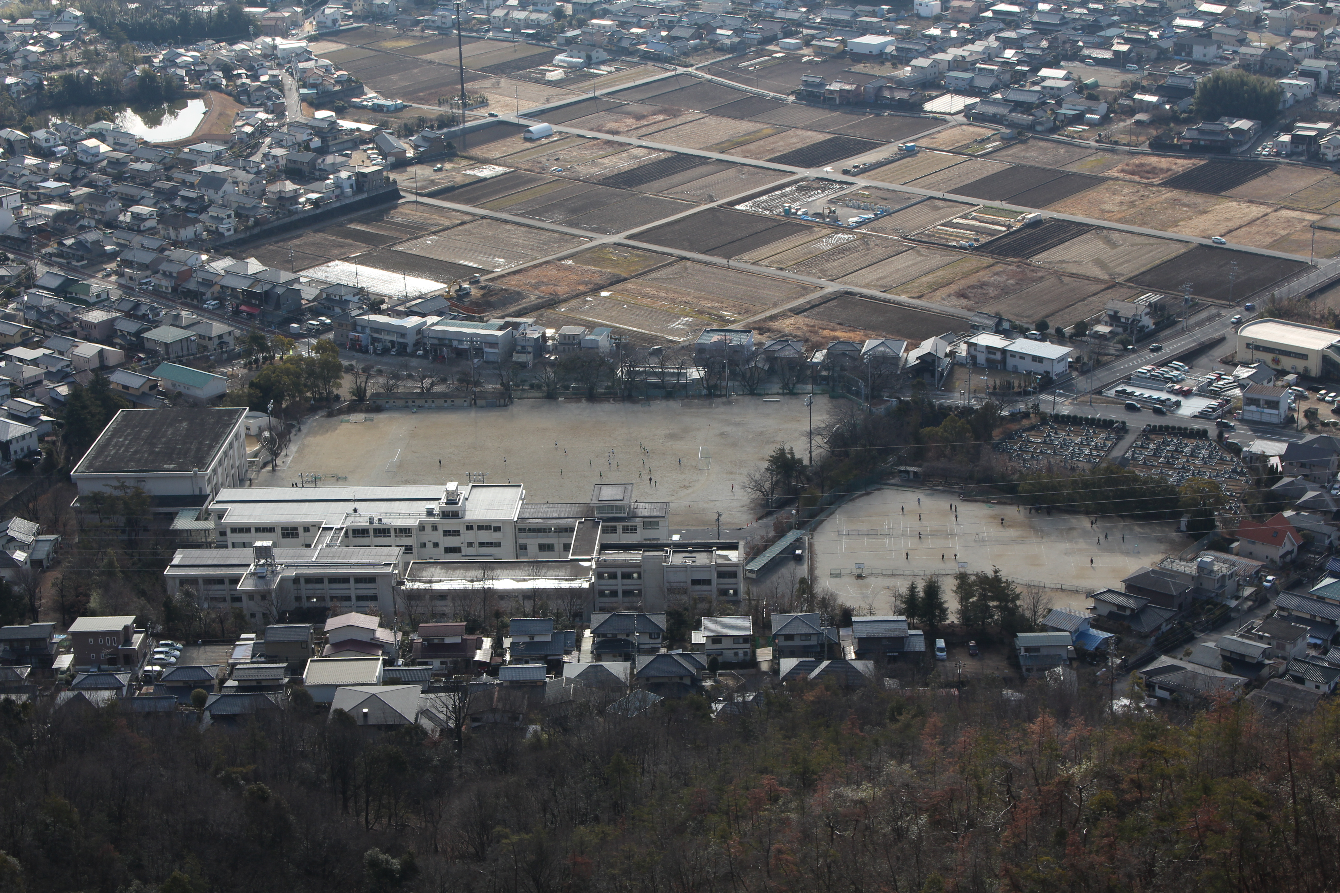 Unuma junior high school seen from Mount Atago, in Kakamigahara, Gifu prefecture, Japan.